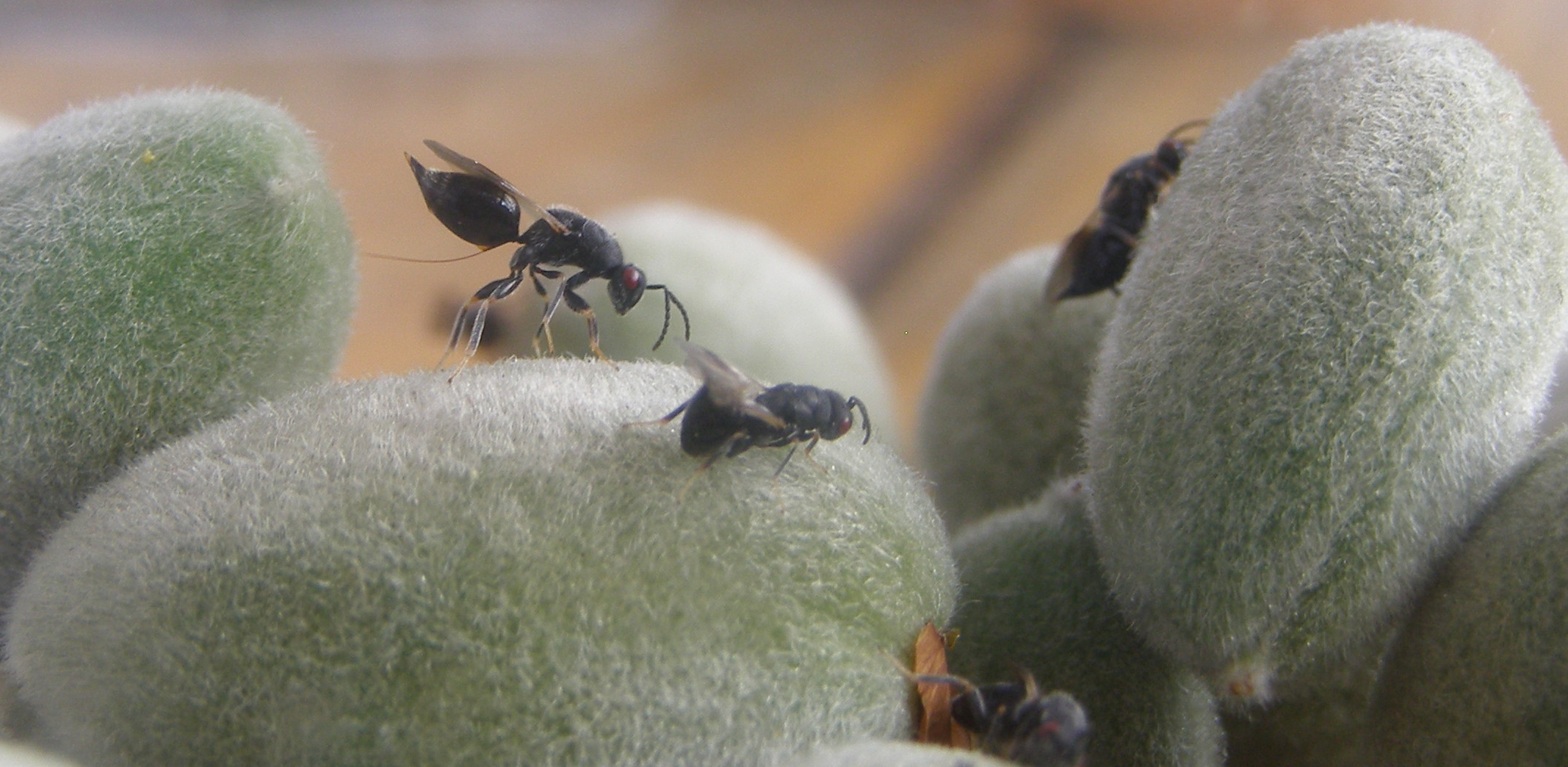 The female Eurytoma amygdali withdraws its ovipositor of the almond. In captivity several females oviposited on a same almond.